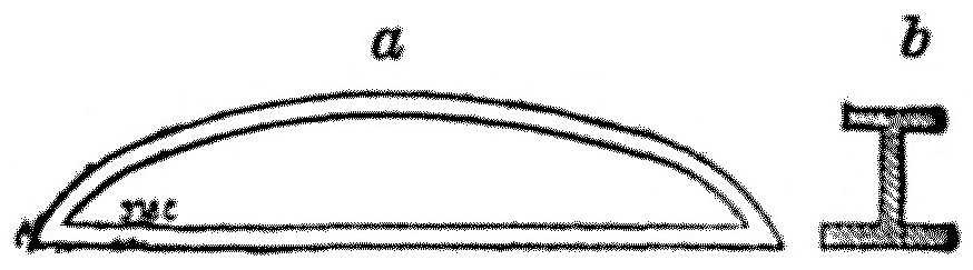 Illustration from Brockhaus and Efron Encyclopedic Dictionary (1890—1907).